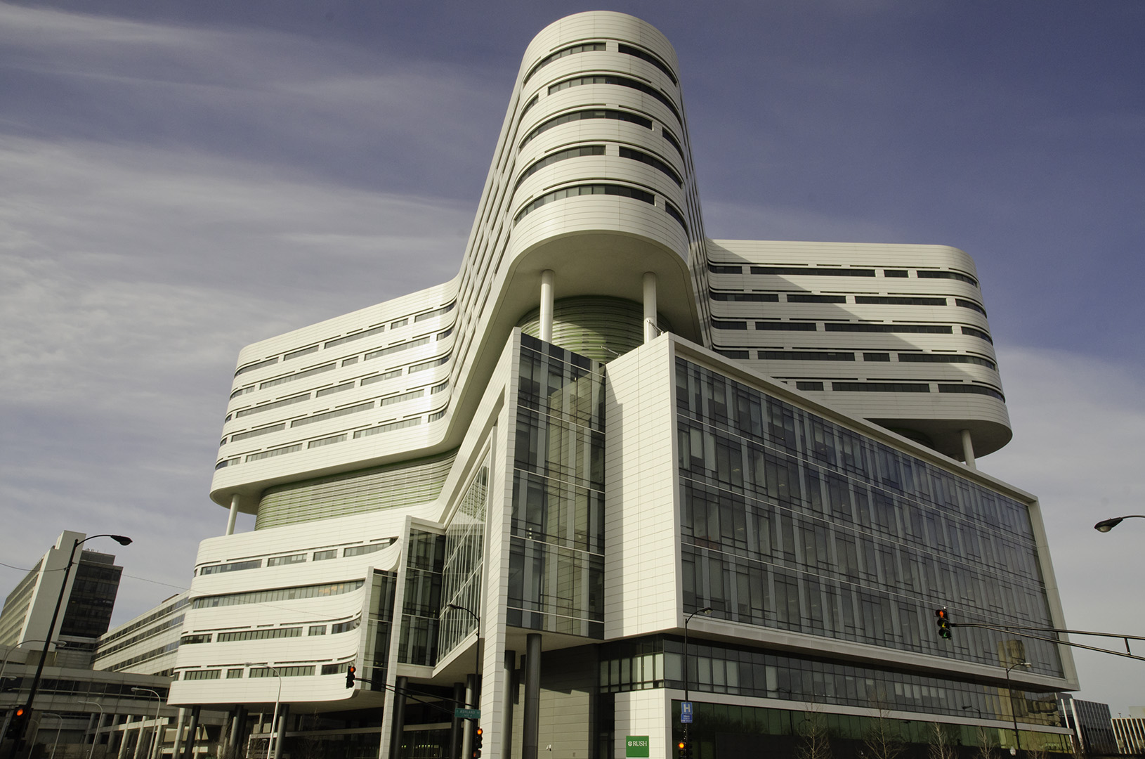 Photograph of the East Tower of Rush University Medical Center in Chicago, IL